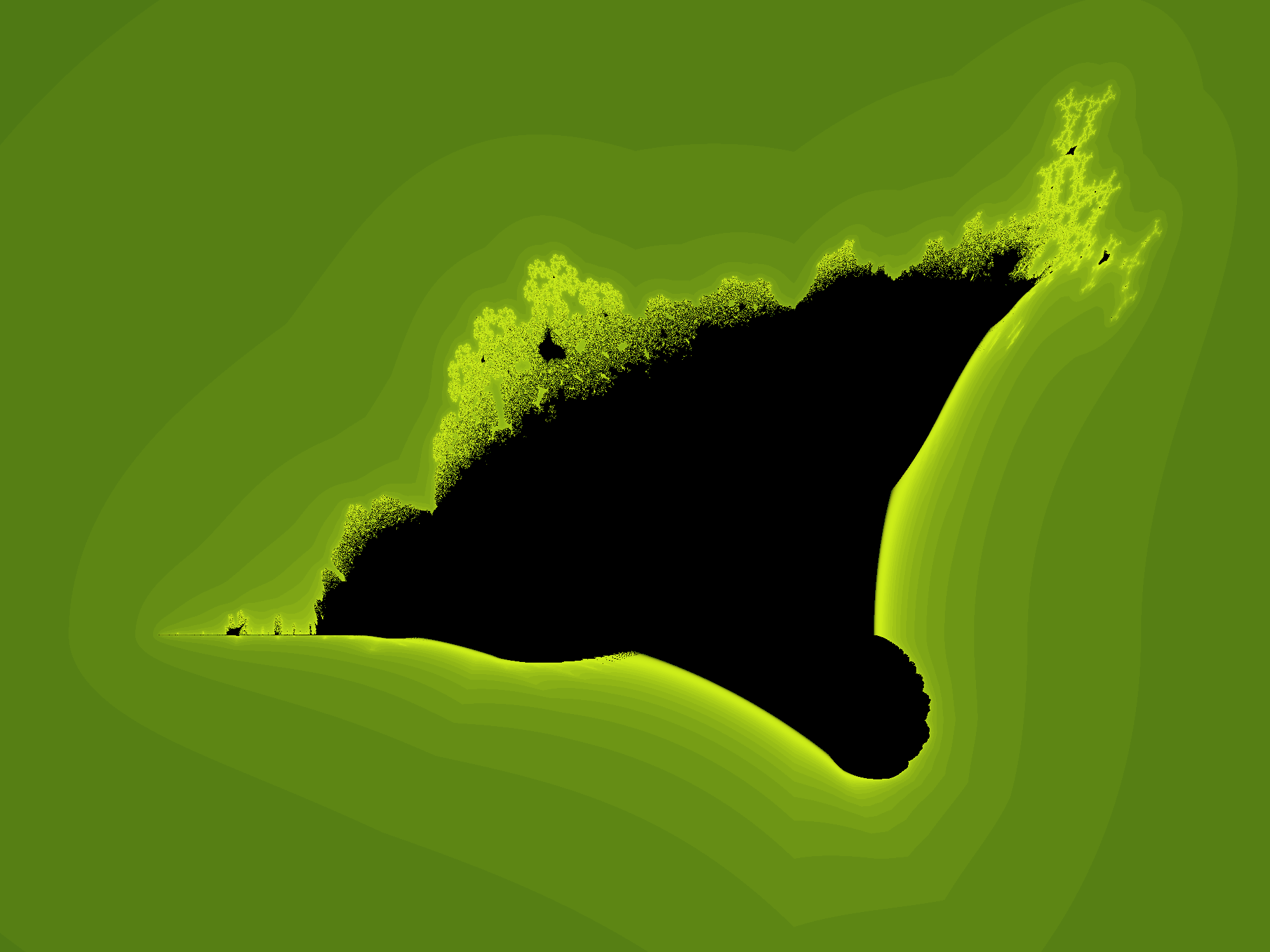 A view of the Burning Ship fractal. This is a fractal generated by iterating the following equation for each point with coordinates c in the complex plane: Z n + 1 = ( | ℜ ( Z n ) | − i | ℑ ( Z n ) | ) 2 + c , Z 0 = 0 {\displaystyle Z_{n+1}=\left(|\Re \left({Z_{n \right)|-i|\Im \left({Z_{n \right)|\right)^{2}+c,\quad Z_{0}=0} This image is in the complex plane with lower left corner (-2.5, -i) and upper right corner (1.5, 2i). Some descriptions of this fractal give the equation with an addition rather than a subtraction. This produces a reflection in the real-axis, which means that it is hard to see the "burning ship". If the iteration "escapes" to large numbers, it is coloured according to how long it took to reach a cutoff point (here, 40). If it does not escape after 100 iteration, the point is coloured black. This image was made in Ultrafractal 4.